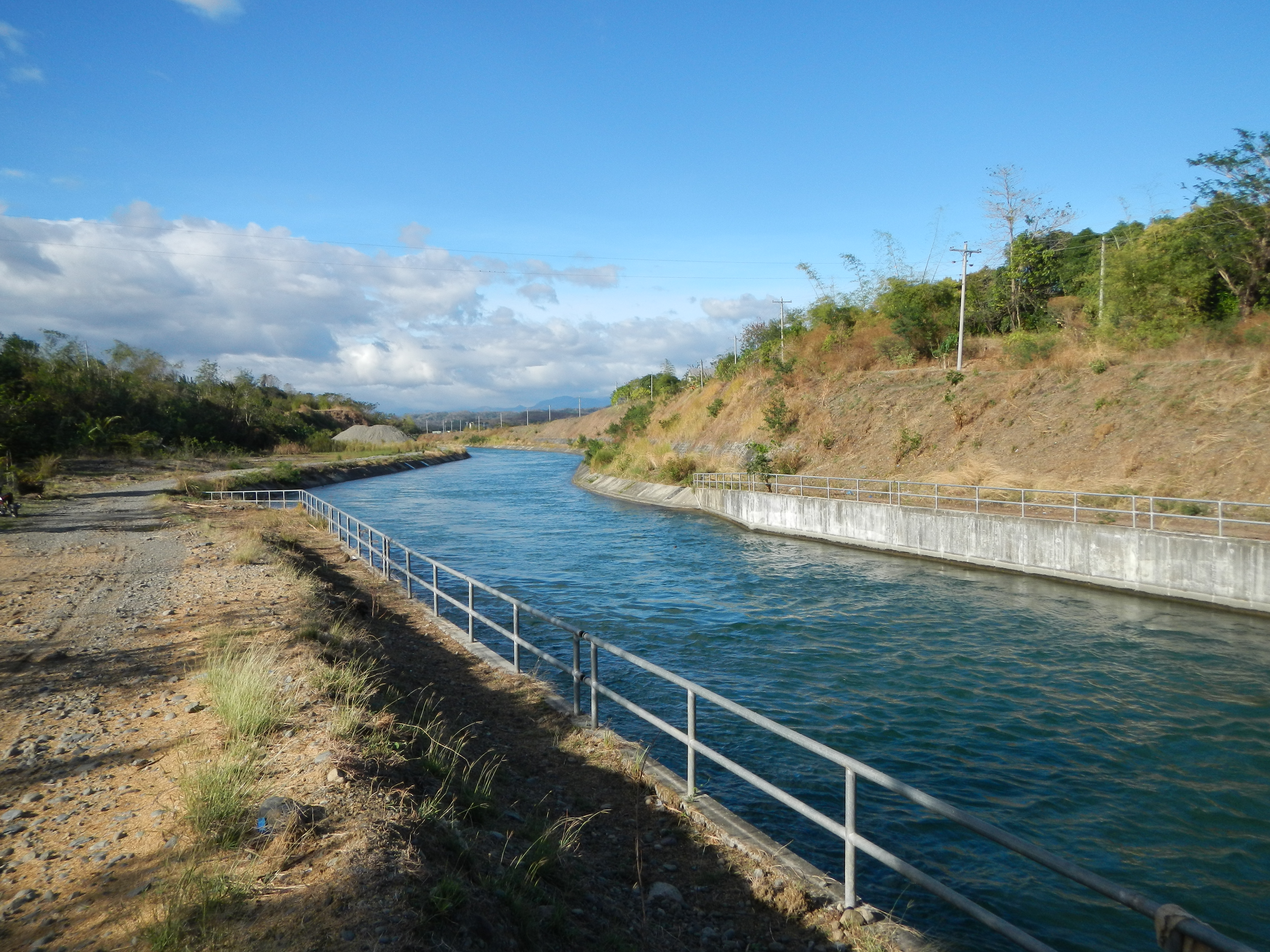 The Casecnan Irrigation and Power Generation Project Rizal, Nueva Ecija[1] The P6.75-B Casecnan Multi-purpose Irrigation and Power Project in Nueva Ecija provides irrigation to more than 26,920 hectares of new farms in the municipalities of Munoz, Talugtog, Guimba, Cuyapo, and Nampicuan while at the same time generating some 140 megawatts of power for the Luzon grid that will supply cheap electricity to millions of people in Luzon including Metro Manila. The project is expected to increase the annual rice production to 834,000 metric tons of milled rice nationwide. With ample supply of water, fishponds in Central Luzon are expected to mushroom as farmers would be encourage to build fishponds for tilapia, bangus (milkfish) and catfish. It also gives additional irrigation water to the 55,000 hecatres of land in upper Pampanga River Integrated Irrigation System by rehabilitating and enlarging canals and structures, including the dredging and lining of major conveyances. [2] [3][4] [5][6][7][8]EXECUTIVE ORDER NO. 281 November 16, 1995 [9]